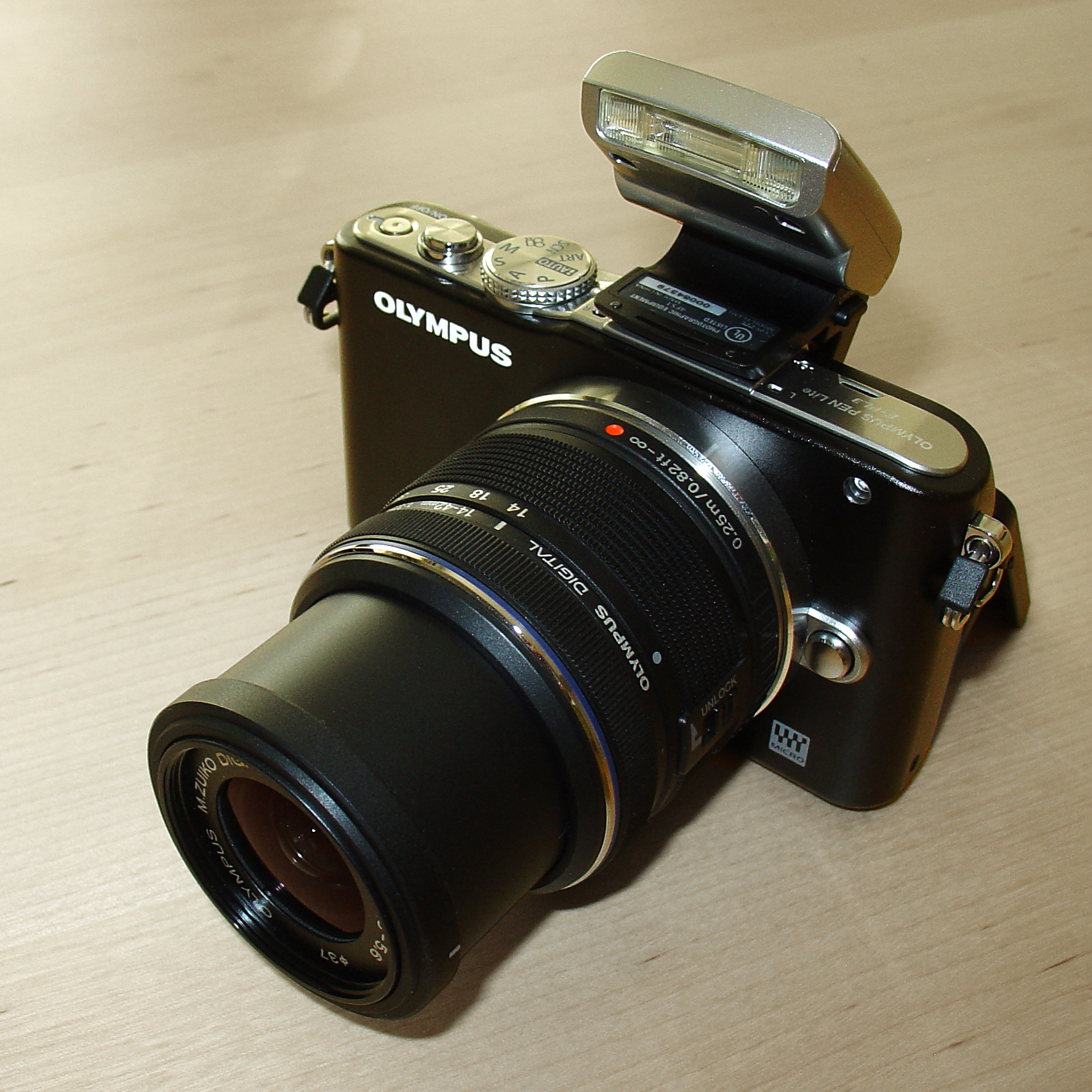 The Olympus PEN E-PL3 camera with the 14-42 mm kit lens and a flash attached.